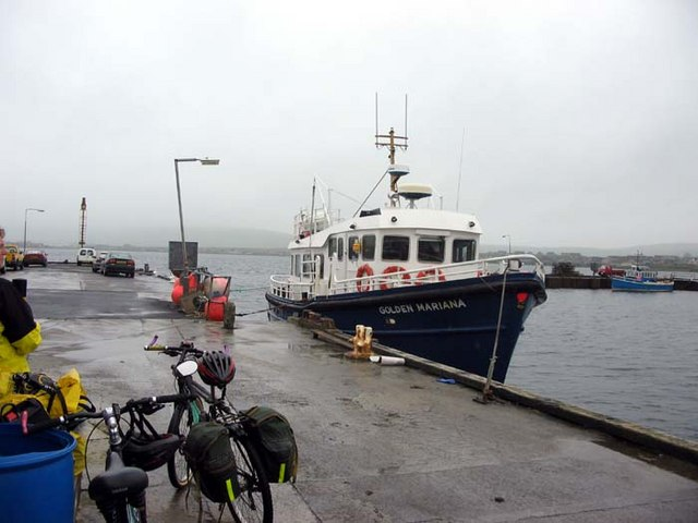 Golden Mariana About to set sail from Gill Pier to Moclett, Papa Westray